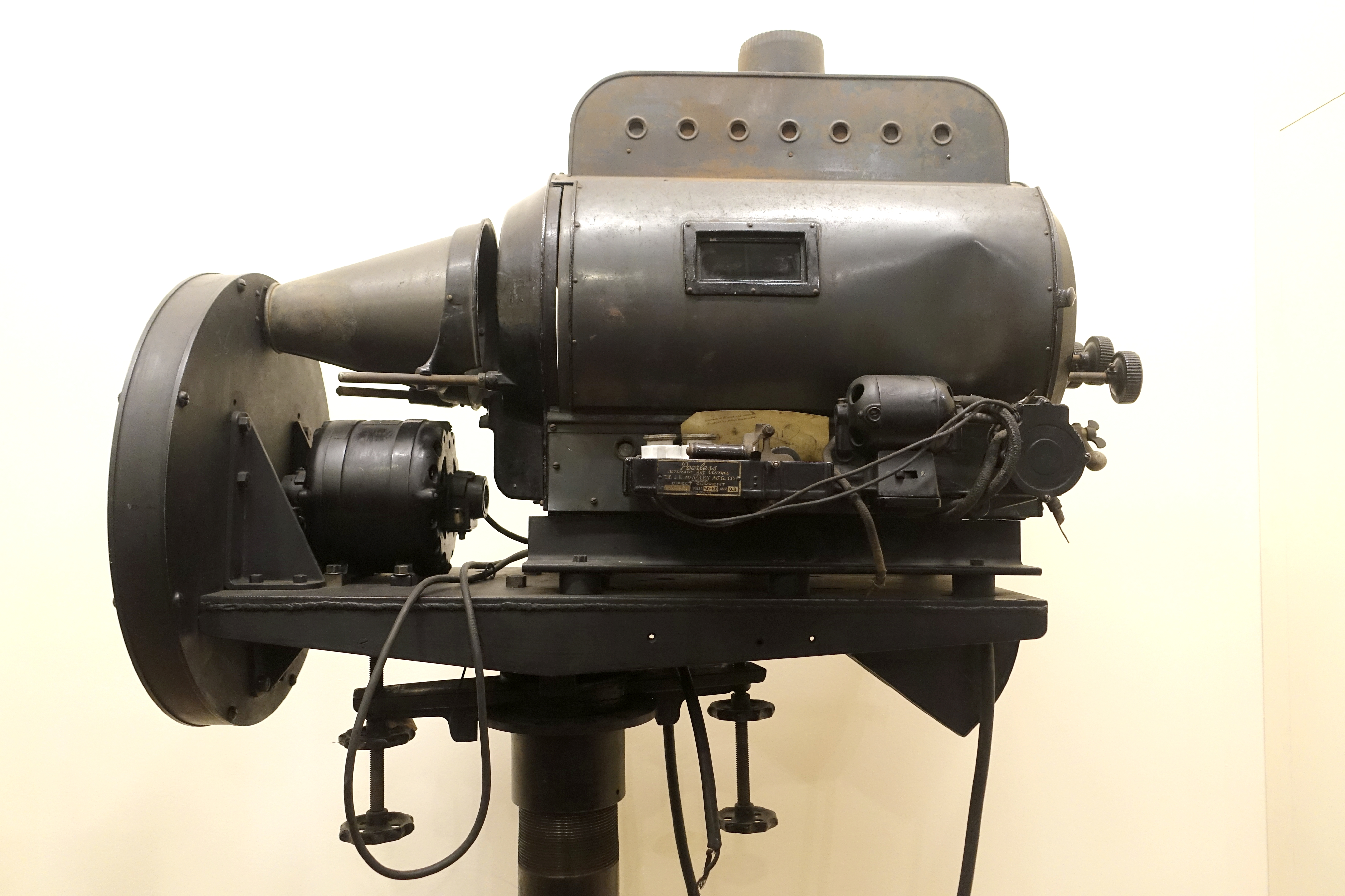 Exhibit in the Museum of Science and Industry, Chicago, Illinois, USA.